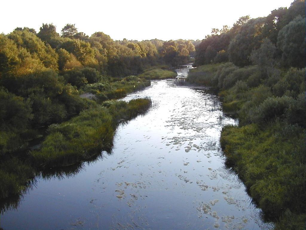 Bartuva near Barta in Latvia.